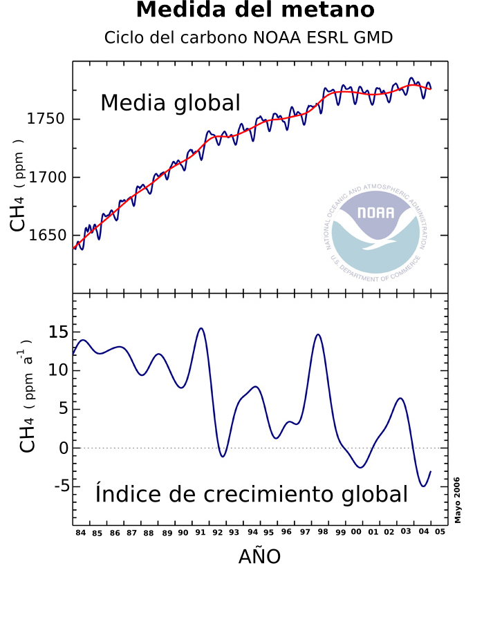 Atmospheric Methane measurements 1984-2005 Top: Global average methane mixing ratios from the GMD cooperative air sampling network. Bottom: Global average growth rate for methane.